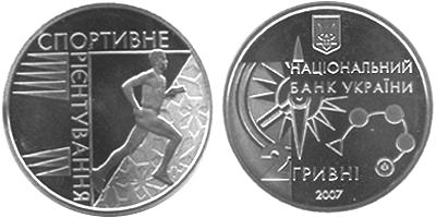 On the obverse against the glass background there is the Small National Emblem of Ukraine, under which there is the inscription: НАЦІОНАЛЬНИЙ / БАНК УКРАЇНИ (National Bank of Ukraine), marking of sportsman's route (on the right), the conventionalized depiction of the compass (on the left), below there is the coin face value - 2 ГРИВНІ (2 Hryvnias), as well as the National Bank of Ukraine Mint logotype.